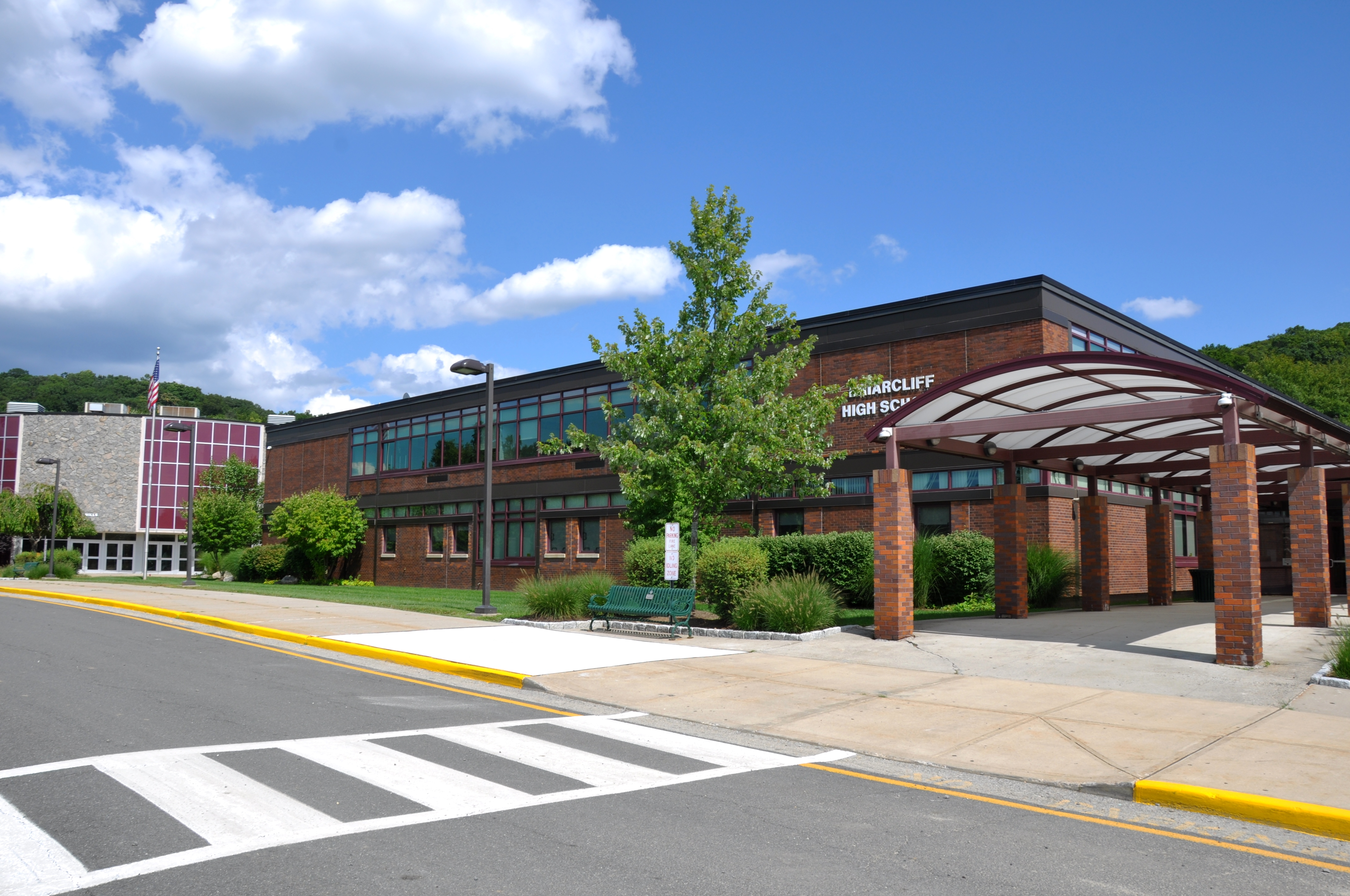 Briarcliff High School, taken 2014-08-17 14:44:40.